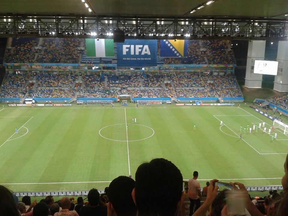 Bosnia v Nigeria match at Arena Pantanal Brazil during 2014 FIFA World Cup